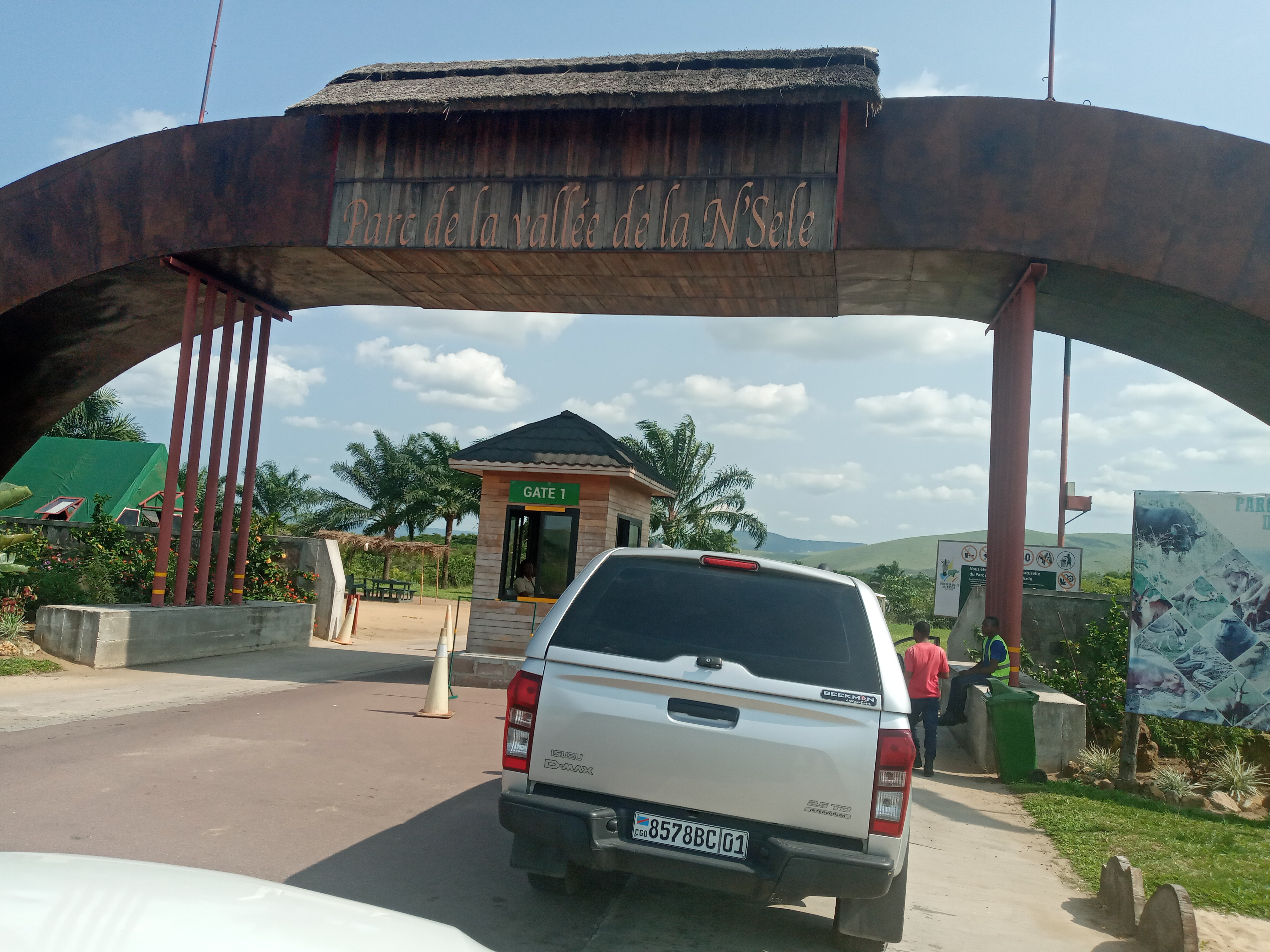 This is an image with the theme "Africa on the Move or Transport" from: Democratic Republic of the Congo